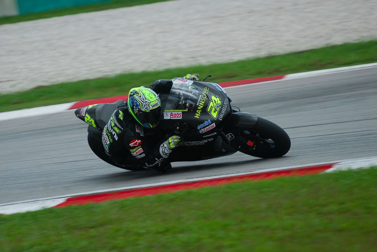 Spanish MotoGP rider Toni Elias powers his Honda during MotoGP pre-season test session at Sepang International Circuit outside Kuala Lumpur January 22, 2007. Rashidi Saleh@jaggat (MALAYSIA)